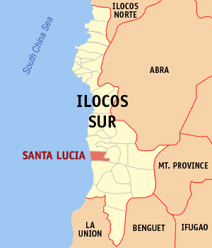 Map of Ilocos Sur showing the location of Santa Lucia